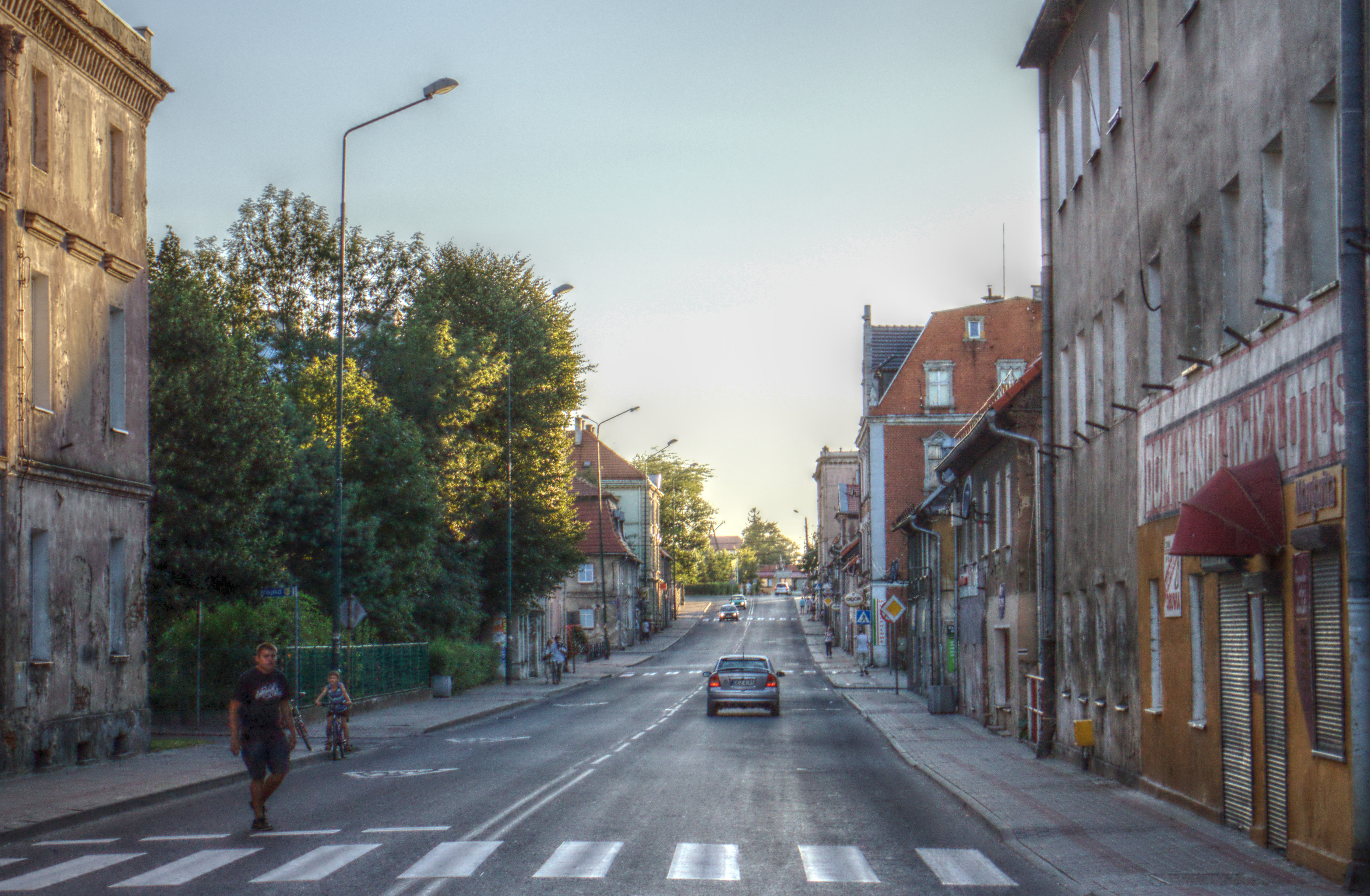 An evening view of the main street in the city of Piława Górna, Lower Silesian Voivodeship, Poland Luminance HDR 2.3.0 tonemapping parameters: Operator: Mantiuk06 Parameters: Contrast Mapping factor: 0.15 Saturation Factor: 1.1 Detail Factor: 1 PreGamma: 0.65